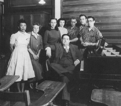 University of Wyoming, 1949, Zenobia Perry is on left. Courtesy of Zenobia Powell Perry (original description). Martens and Martens (with pair of glasses on the background)